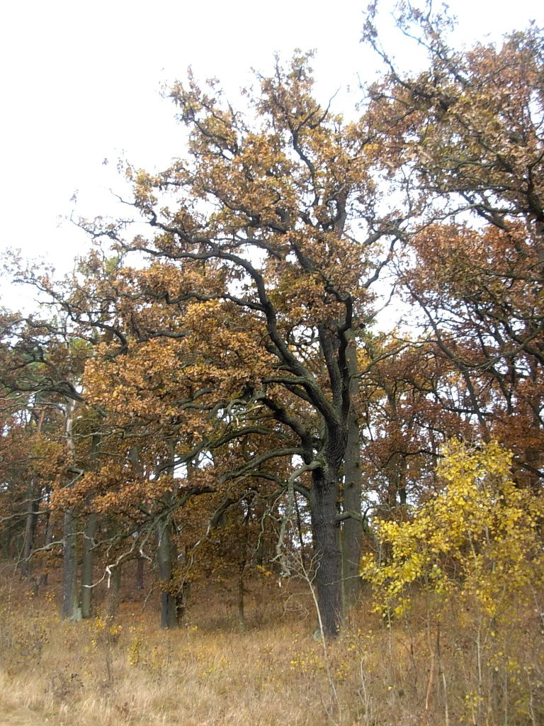 Nature reserve Dziki Ostrów